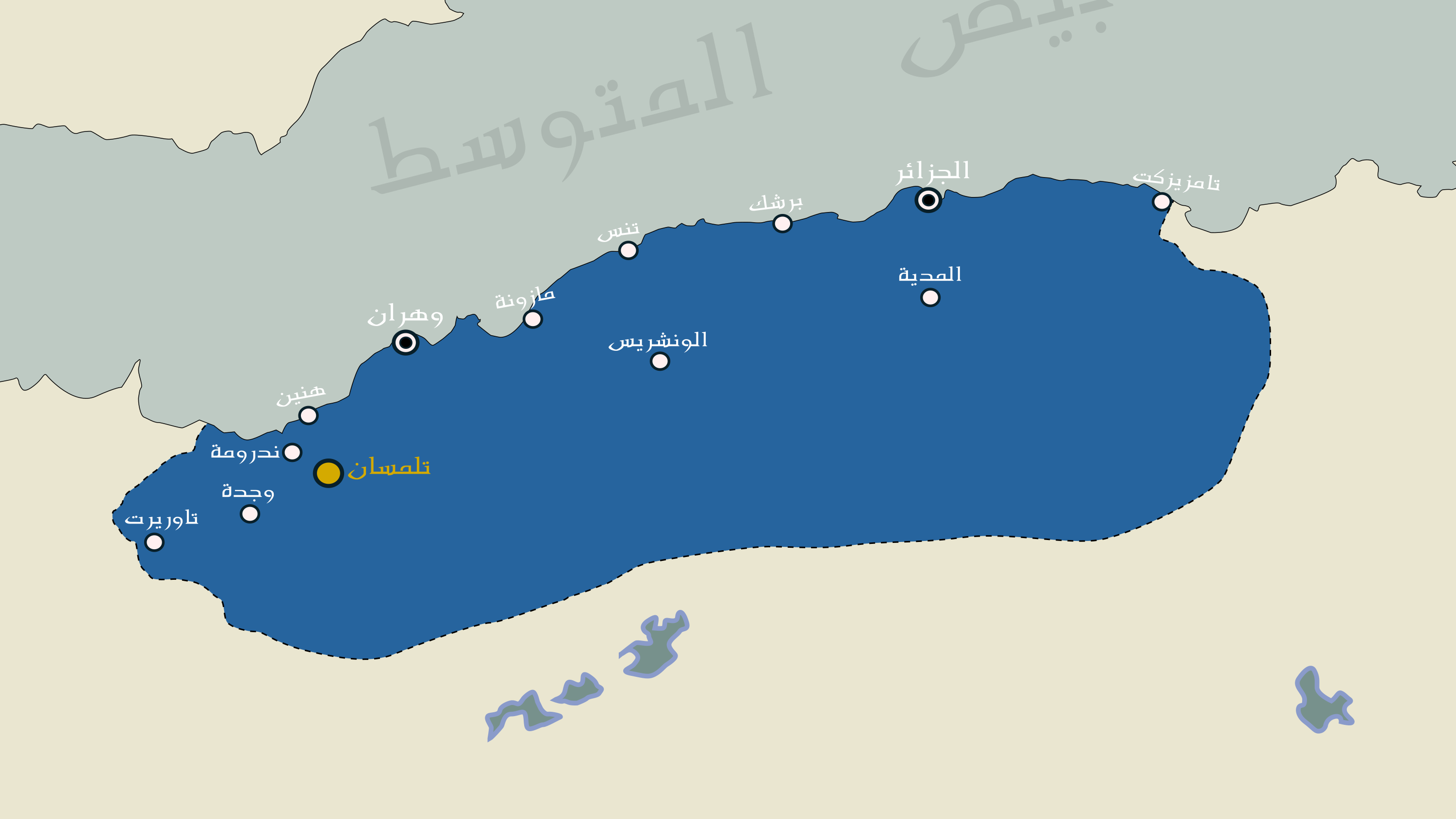 This file represents a Map of Zayyanid kingdom of Tlemcen that ruled Westren Algeria during Medieval period.